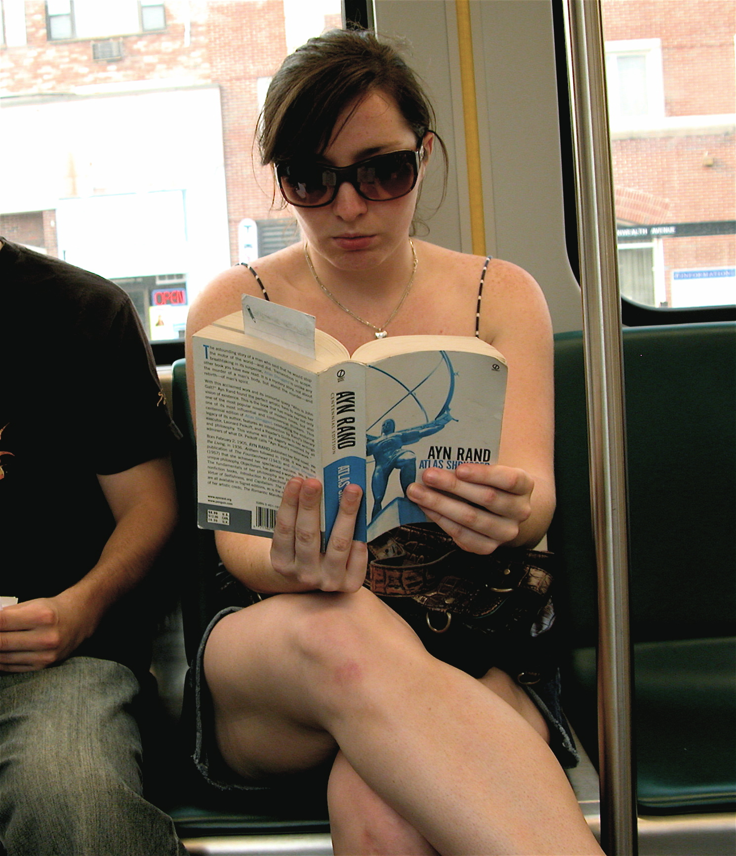 A young woman reading Ayn Rand's Atlas Shrugged on a Green Line "B" Branch train stopped at Babcock Street in Boston, Massachusetts